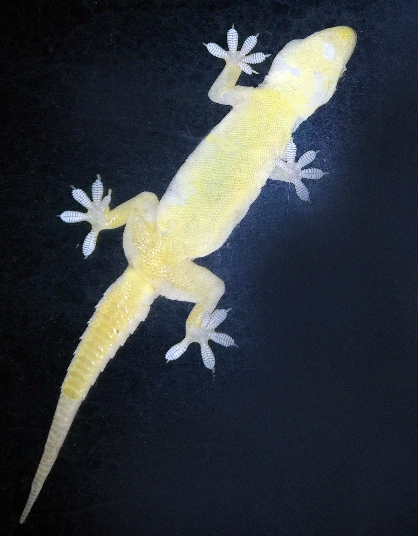 High resolution image of the underside of a Gecko's toes.